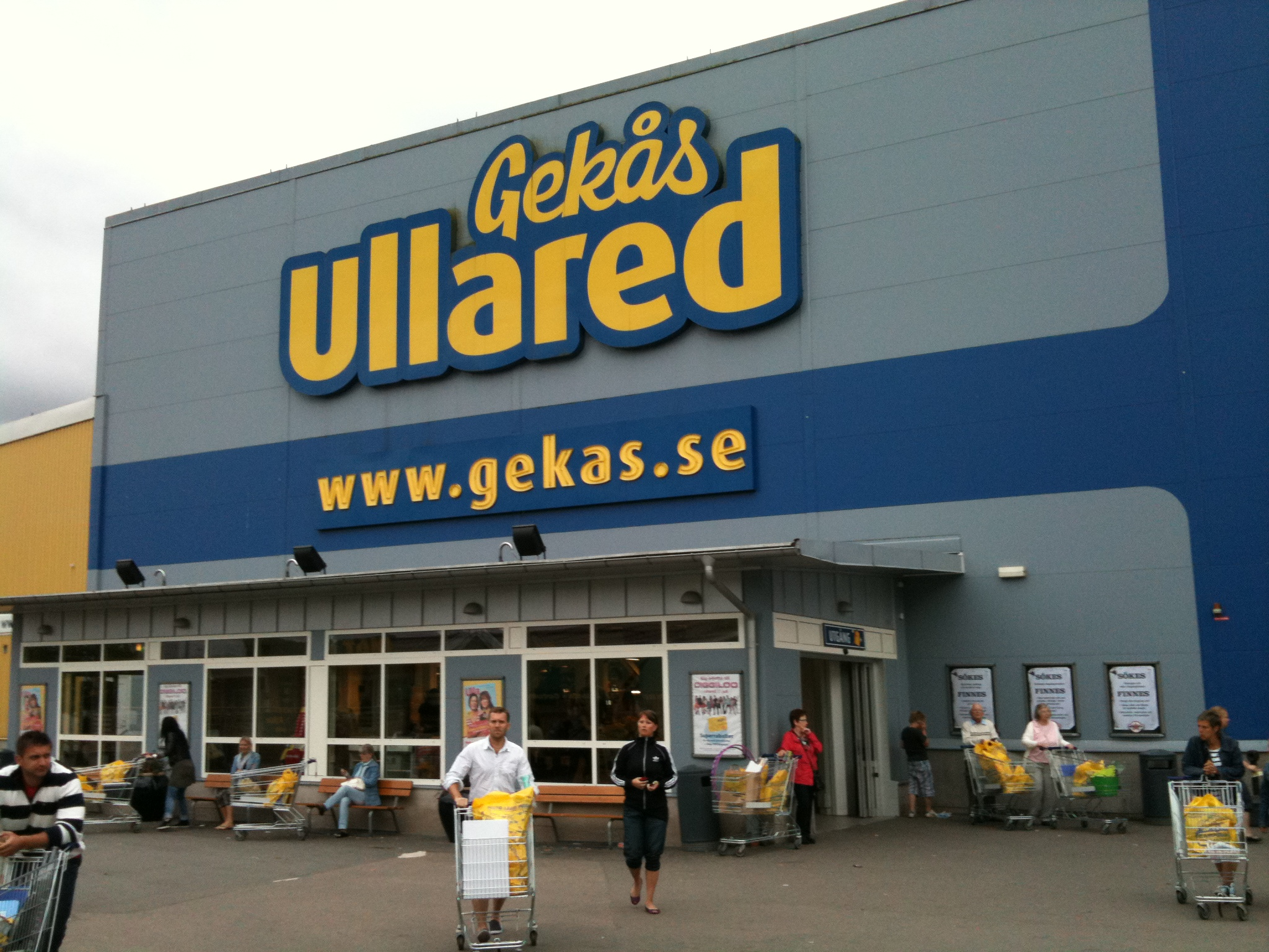 The department store Gekås in Ullared, Sweden.